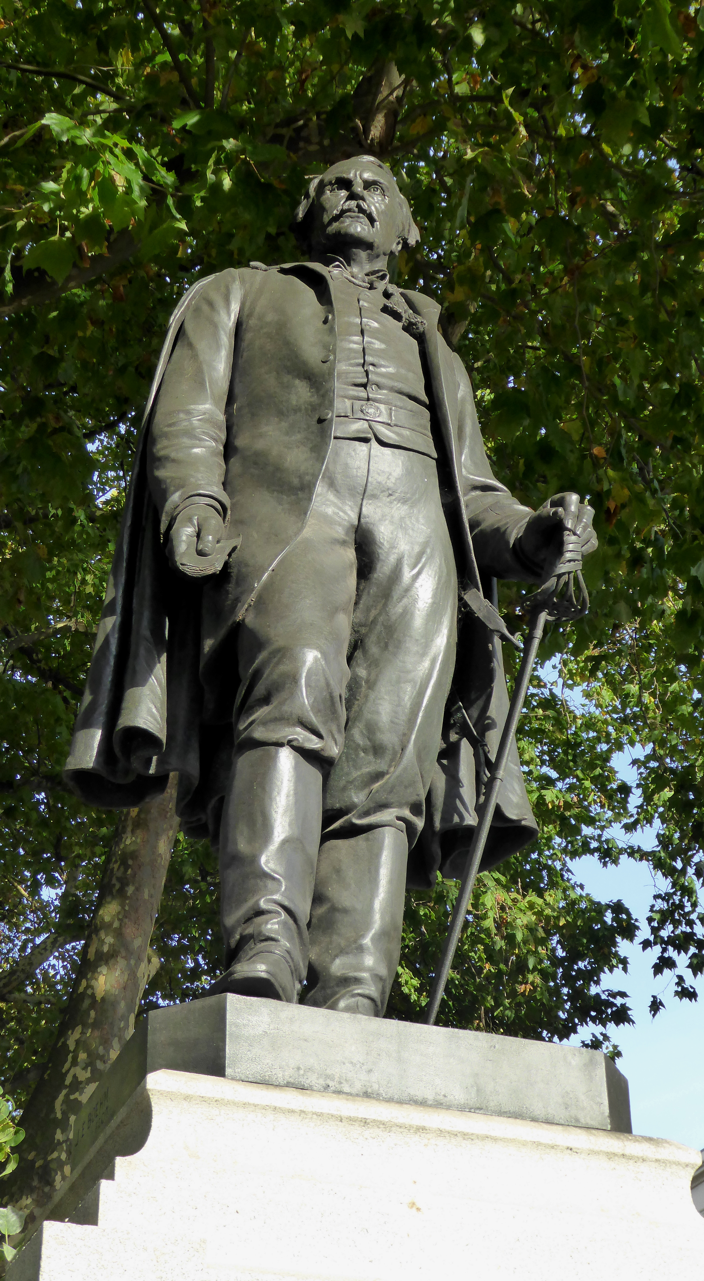 Statue of John Lawrence, 1st Baron Lawrence in Waterloo Place, City of Westminster.